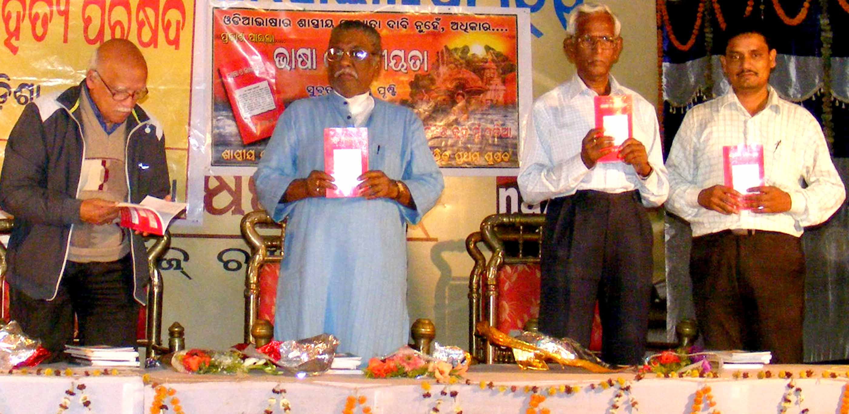 bhasa o jatiyata book innagurate